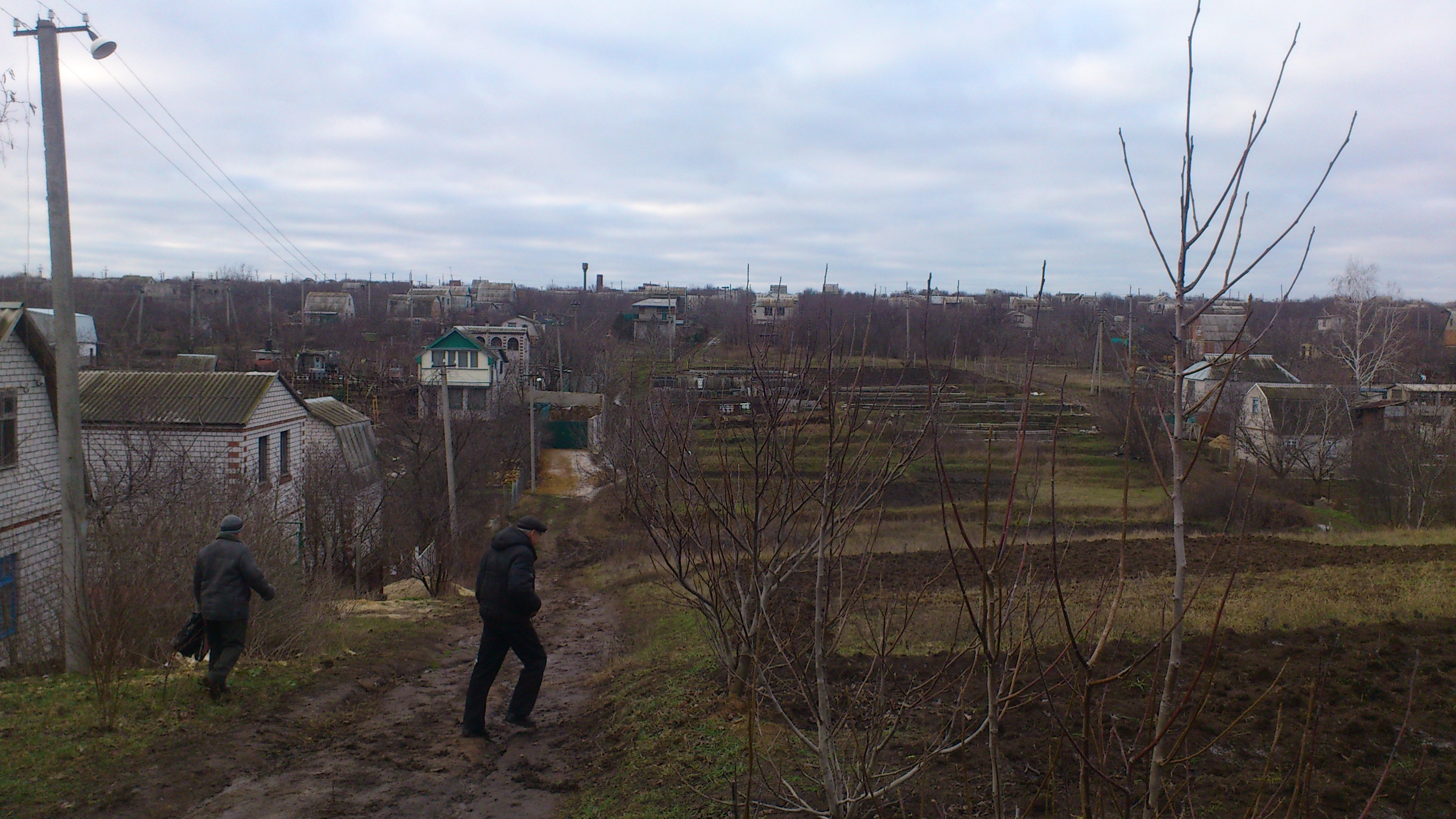 dacha co-ops near Slyvyne, Ukraine